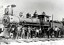 A 1904 photo of Sierra No. 3, a historic steam locomotive now at Railtown 1897 State Historic Park in Jamestown, California